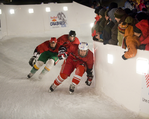 Red Bull Crashed Ice in Quebec City in 2008